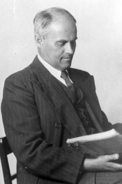 Portrait Siegfried Roesch